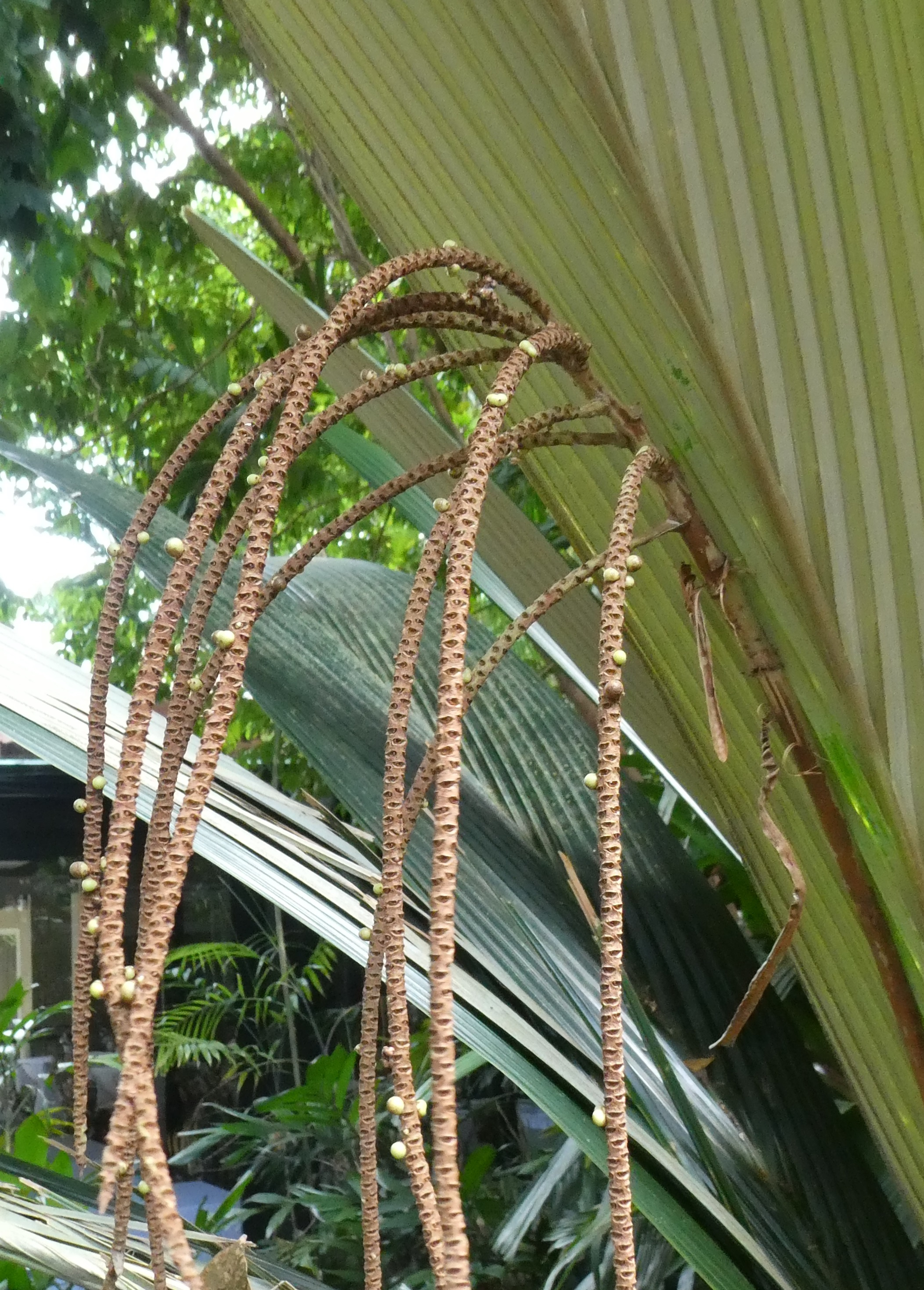 Detail of infructescence with some fruits of S. leucophylla